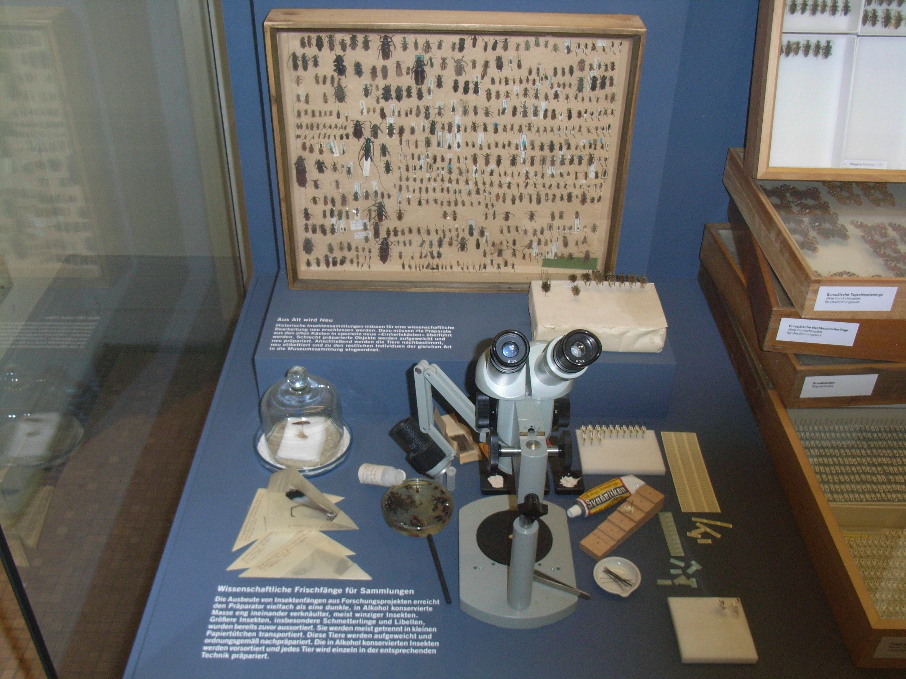 An exhibition case at Museum für Naturkunde in Berlin giving an overview of the techniques used for the preparation of insect specimens.Shown are a binocular microscope, insect pins, forceps, a mounting block, oblong and pointed cards, glue,plastazote,data labels, mounted insects,unmountedinsects in paper triangles,insect trays etc. Closer views File:MuseumfürNaturkundeInsectPreparation (3).jpg and File:MuseumfürNaturkundeInsectPreparation (4).jpg